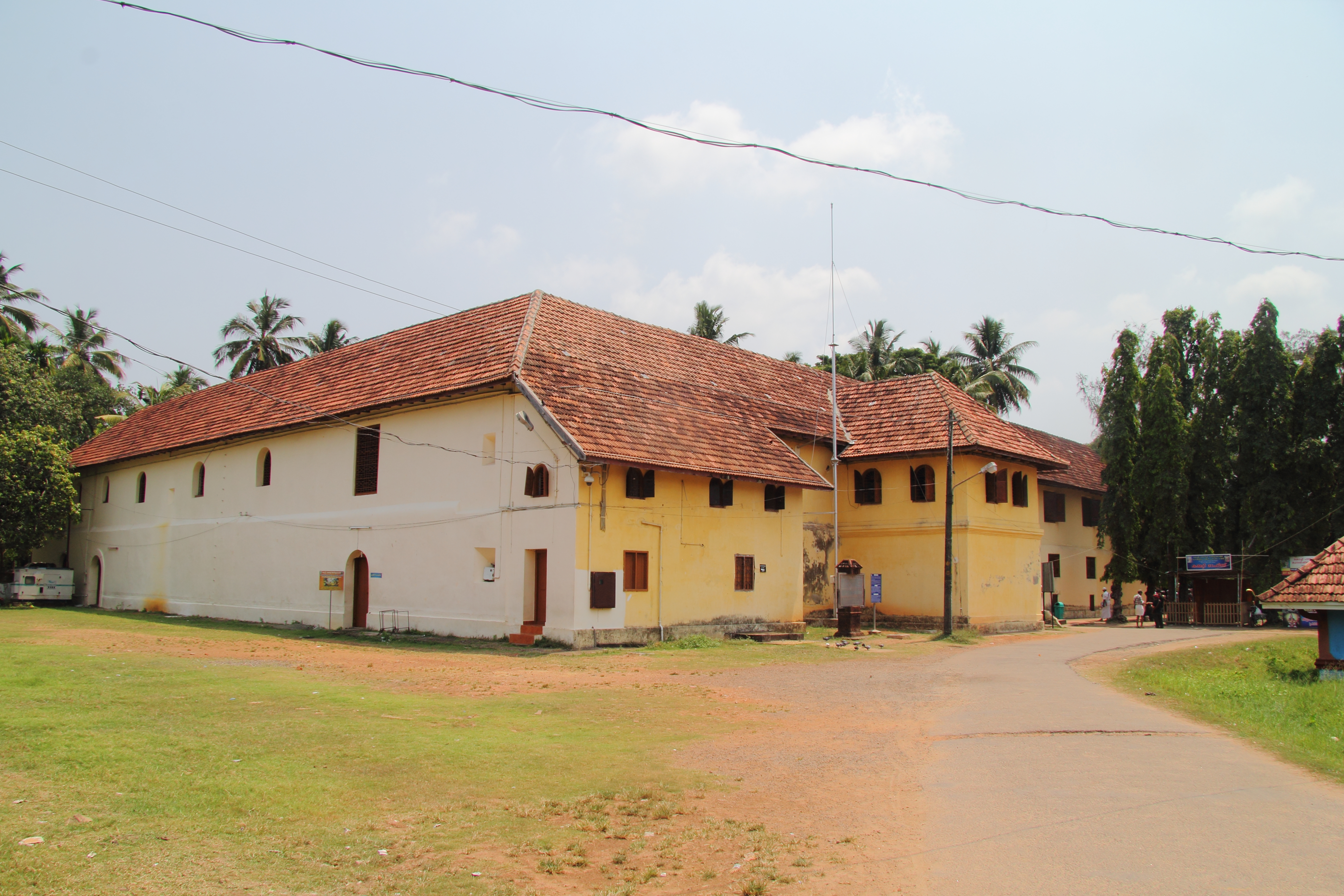 Fort Kochi, India: Mattancherry Palace